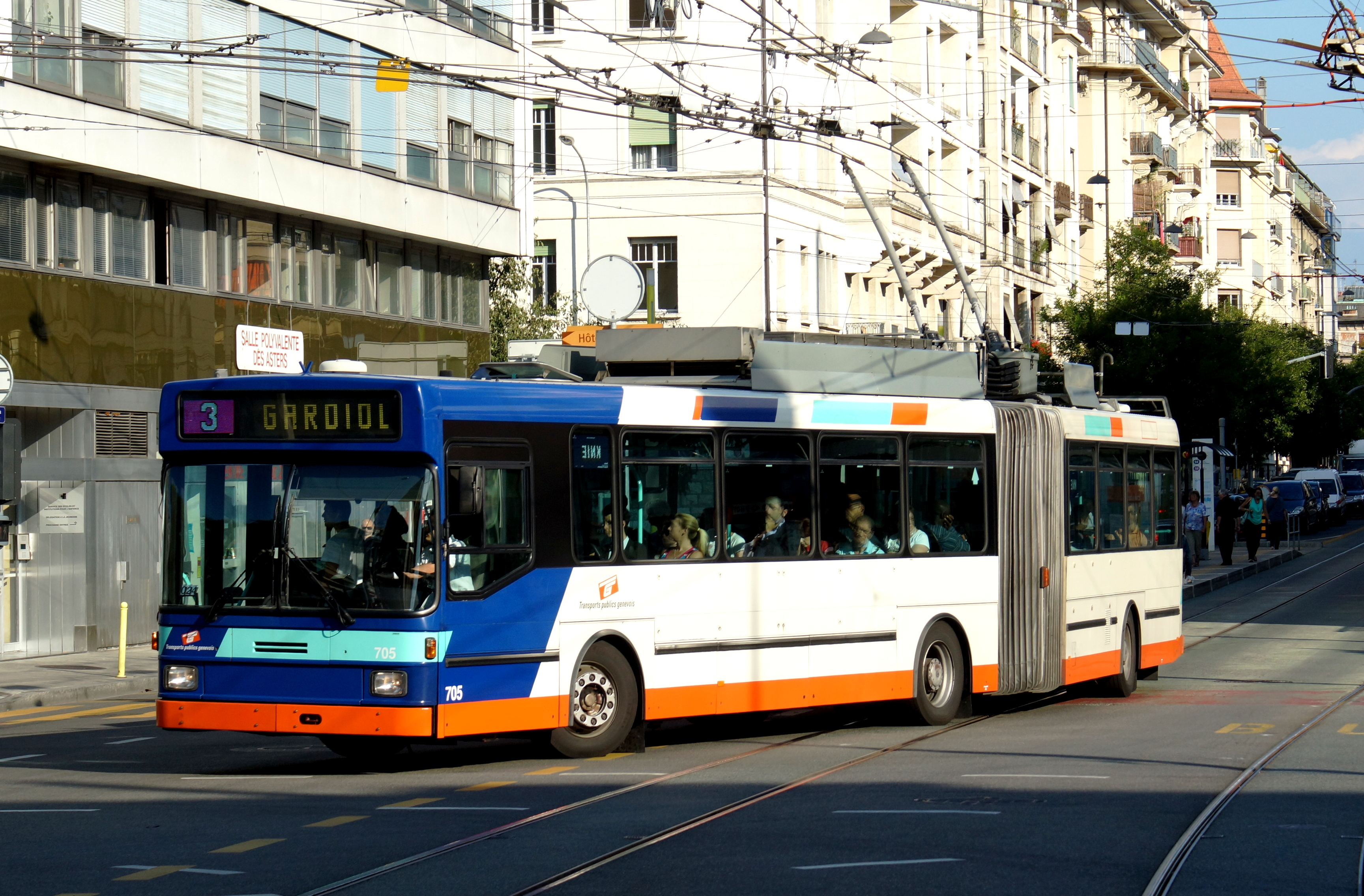 Genève trolleybus No. 705 is a 1992-built NAW/Hess "Swisstrolley"-type low-floor trolleybus.